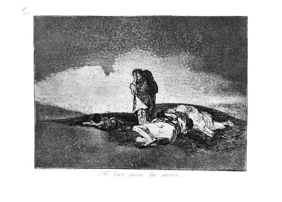 Los Desatres de la Guerra is a set of 80 aquatint prints created by Francisco Goya in the 1810s. Plate 60: No hay quien los socorra. (There is no one to help them. )